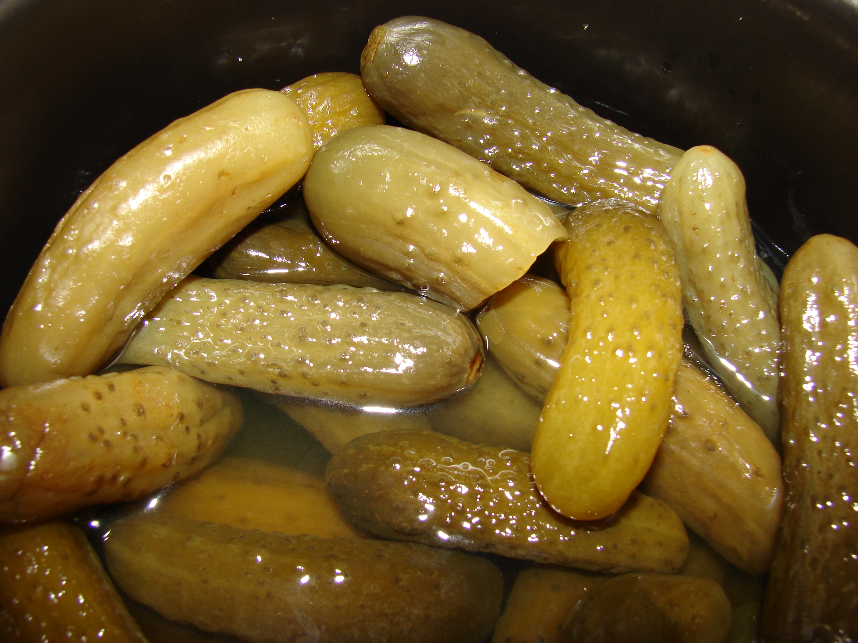 Cucumis sativus (pickles salad bar item). Location: Midway Atoll, Clipper House Sand Island